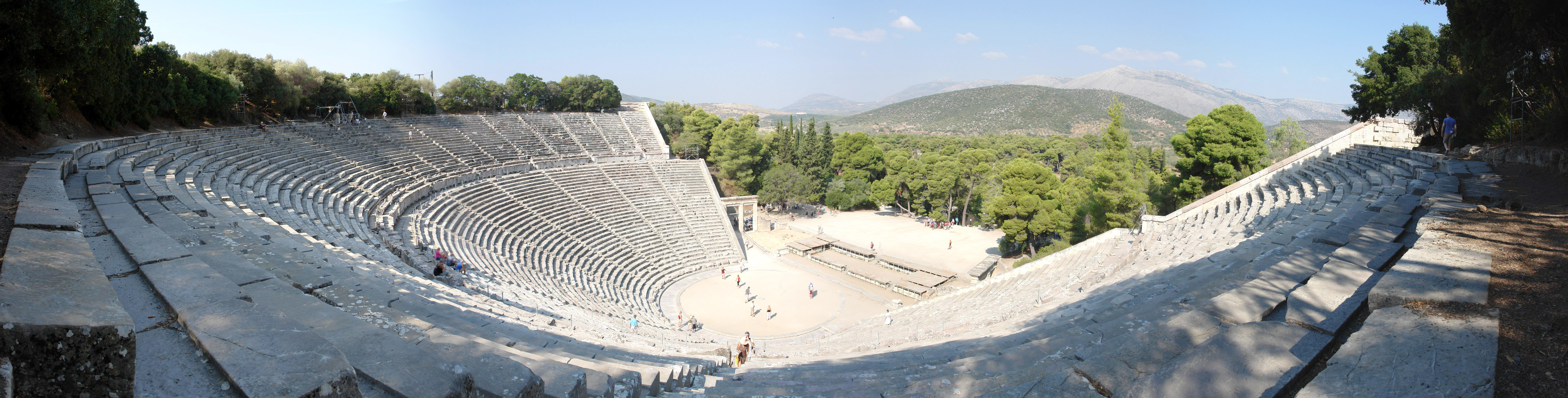 Panorama of the ancient theater of Epidauros. (Composite from four images.)